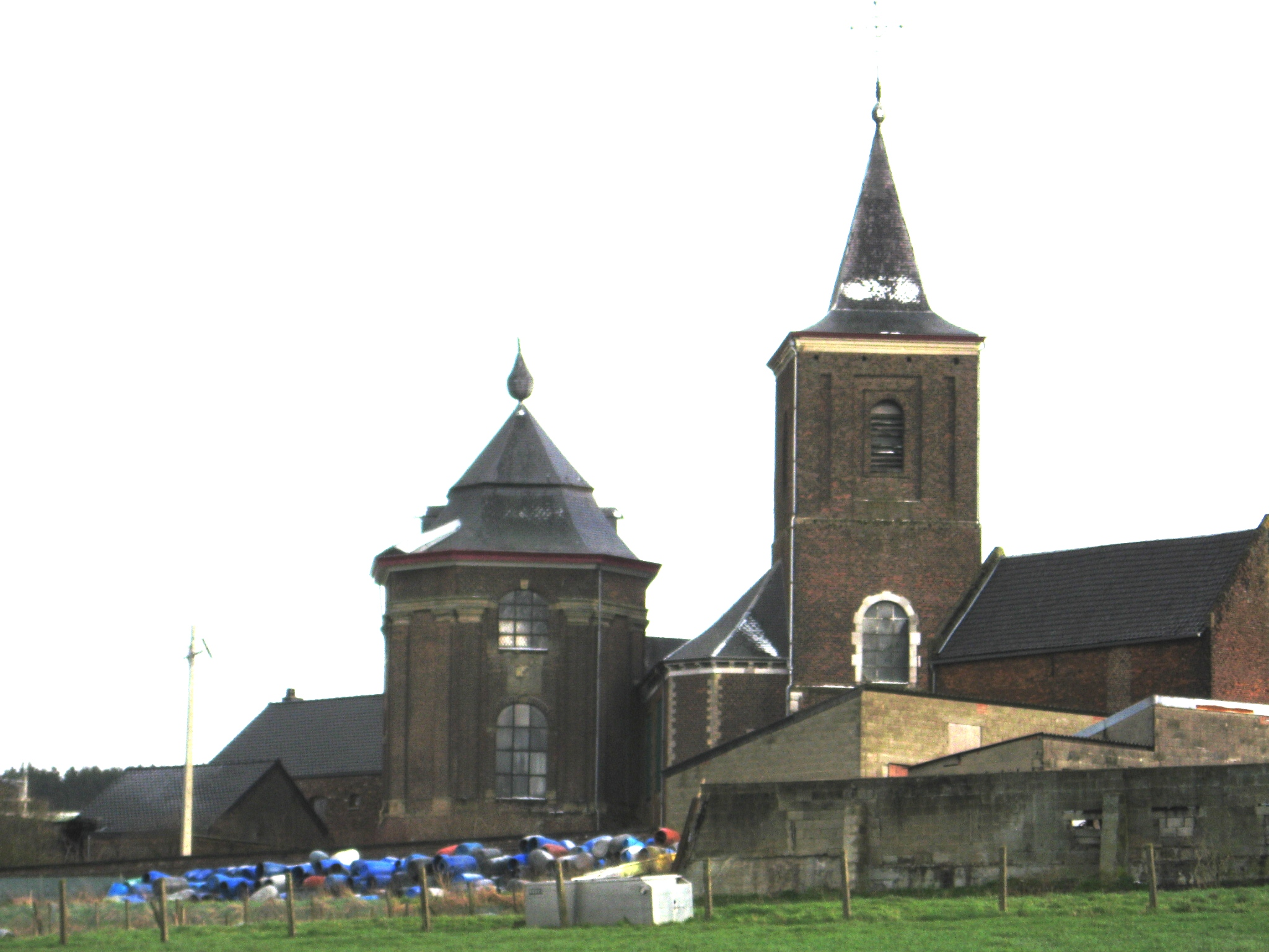 Church of Saint Lawrence in Aubin-Neufchâteau, Dalhem, Liège, Belgium